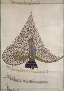 Ottoman Capitulation of Dutch Republic 1612